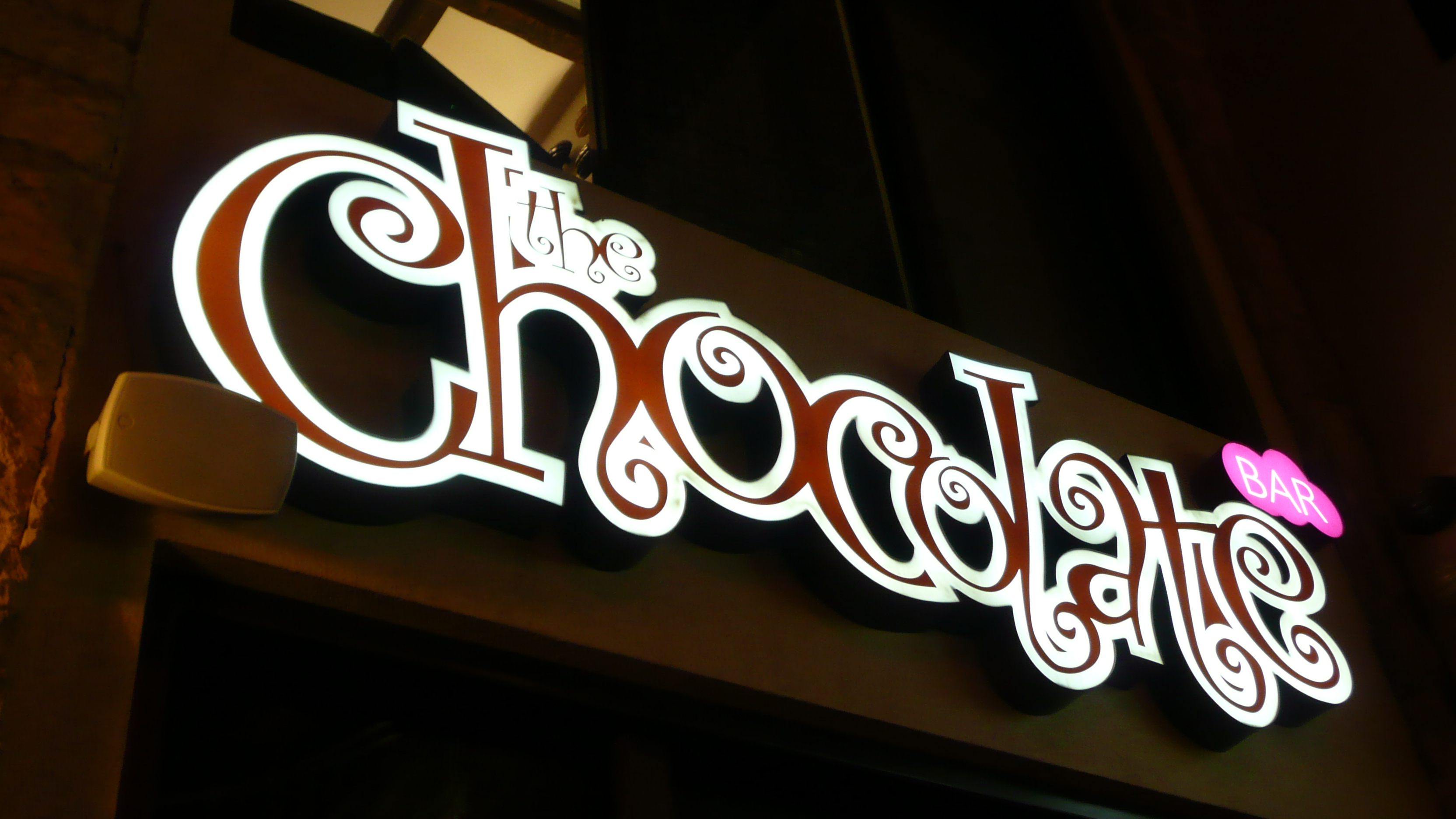 Chocolate Bar CAFE in The Avenues Mall, Kuwait.